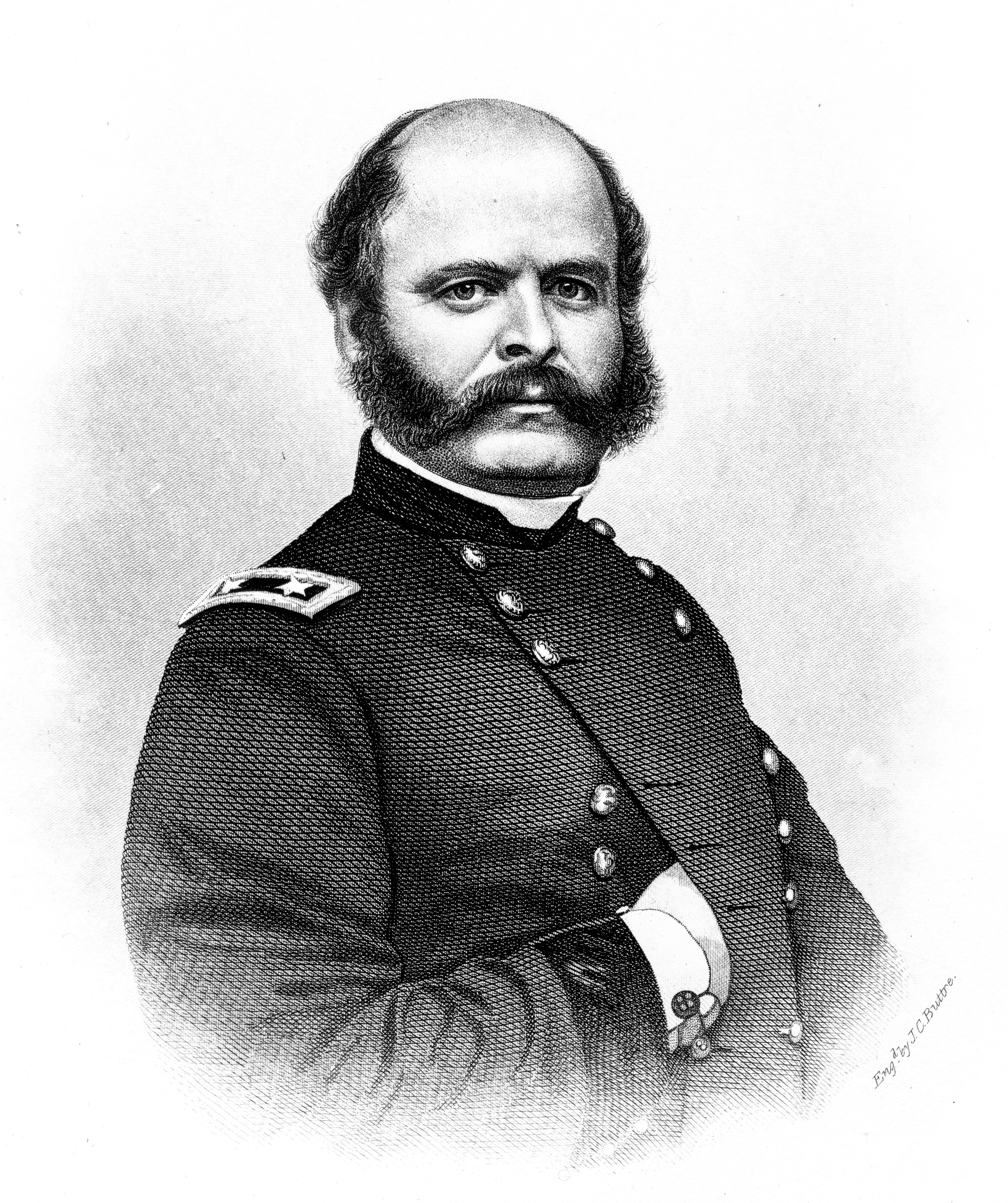 Ambrose Everett Burnside, Civil War general, Governor of Rhode Island, etc. Engraving from The Biographical Cyclopedia of Representative Men of Rhode Island (1881)